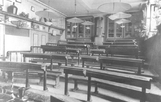 Annenschule (St. Petersburg), Drawing room of 1896, photo c. 1900.